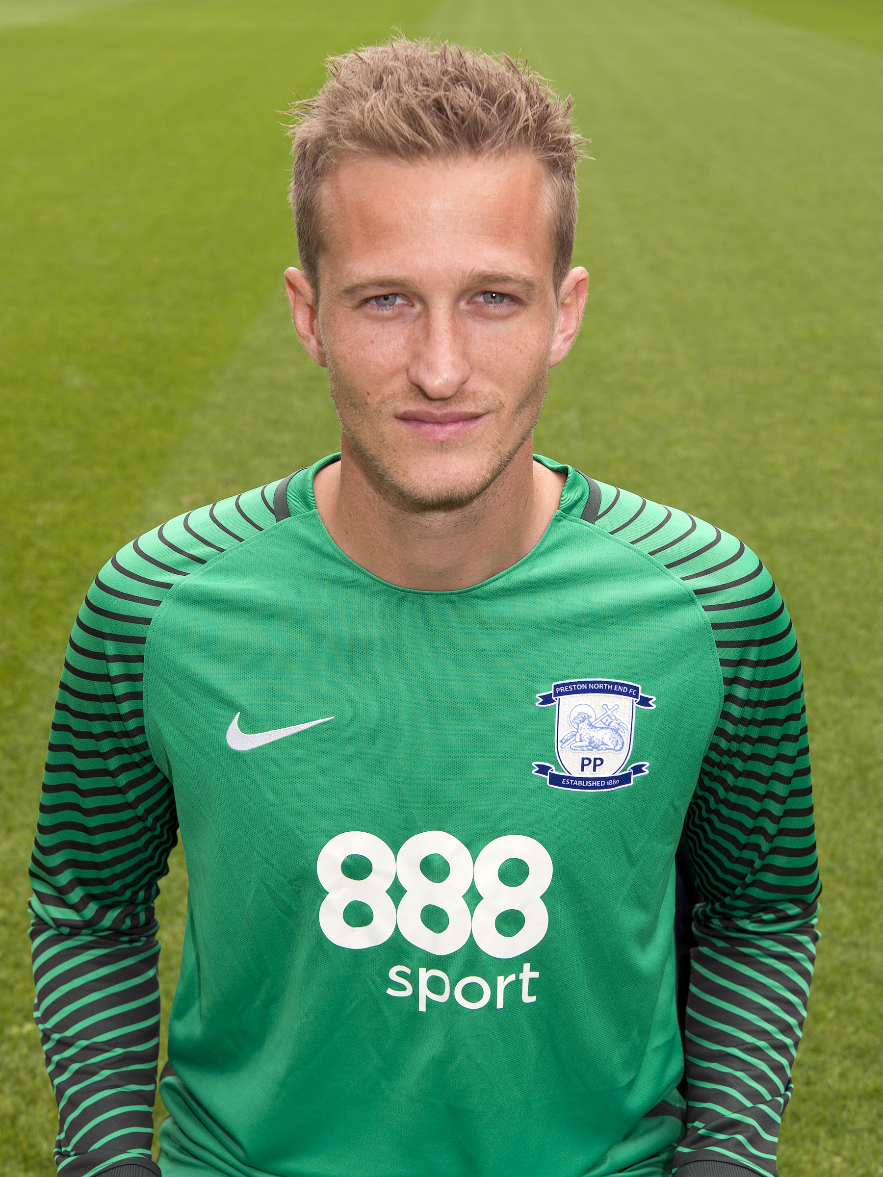 Anders Lindegaard in Preston North End F.C. keeper kit, 2016